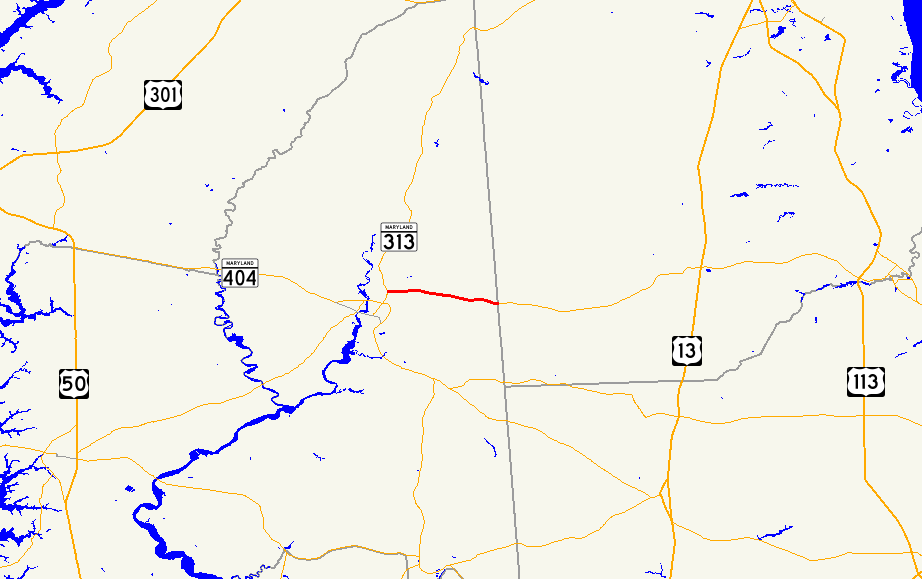 Map of Maryland Route 317